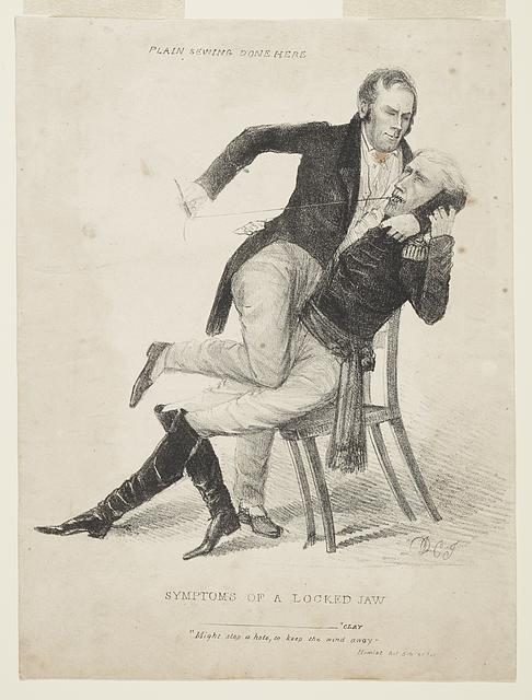 The caricature appeared in the Niles Weekly Register (see Hezekiah Niles) on January 5 and 12, 1828, regarding the "Corrupt Bargain" accusations made my presidentail candidate Andrew Jackson against Secretary of State Henry clay in 1824. Secretary Clay is shown restraining a seated, uniformed General Jackson and sewing up his mouth. From Clay's pocket protrudes a slip of paper reading, "cure for calumny." Below the image is a quote from Shakespeare's "Hamlet," ". . . Clay might stop a hole, to keep the wind away." On the wall behind him are the words "Plain sewing done here."